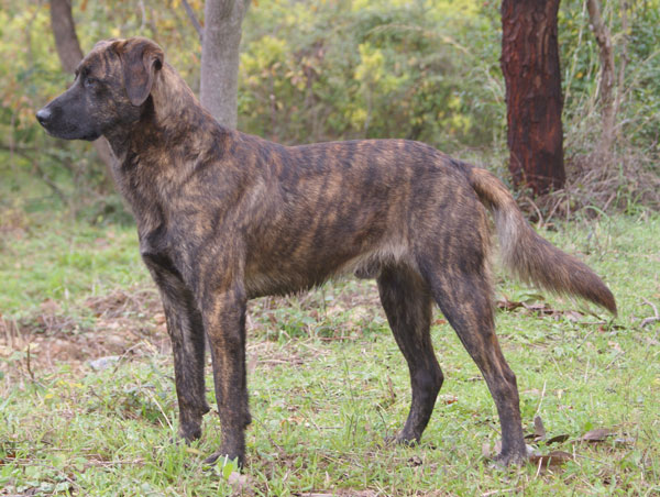 Cursinu, a dog race from Corsica.